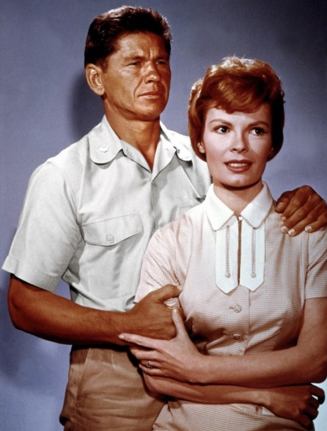 Charles Bronson and Patricia Owens in the film X-15 (1961) - publicity still (cropped - original image : see source)